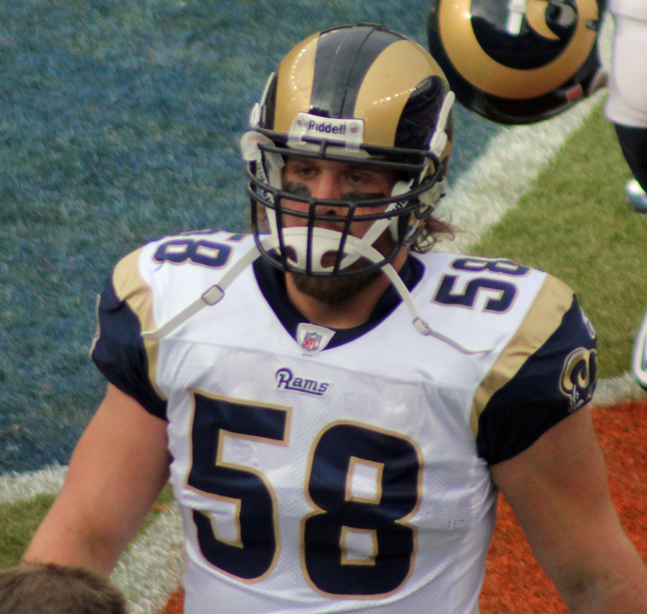 David Vobora, a player on the Saint Louis Rams American football team.